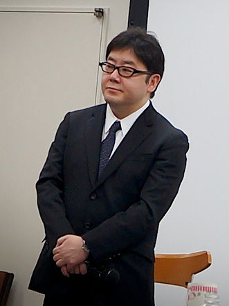 Yasushi Akimoto on March 14, 2012